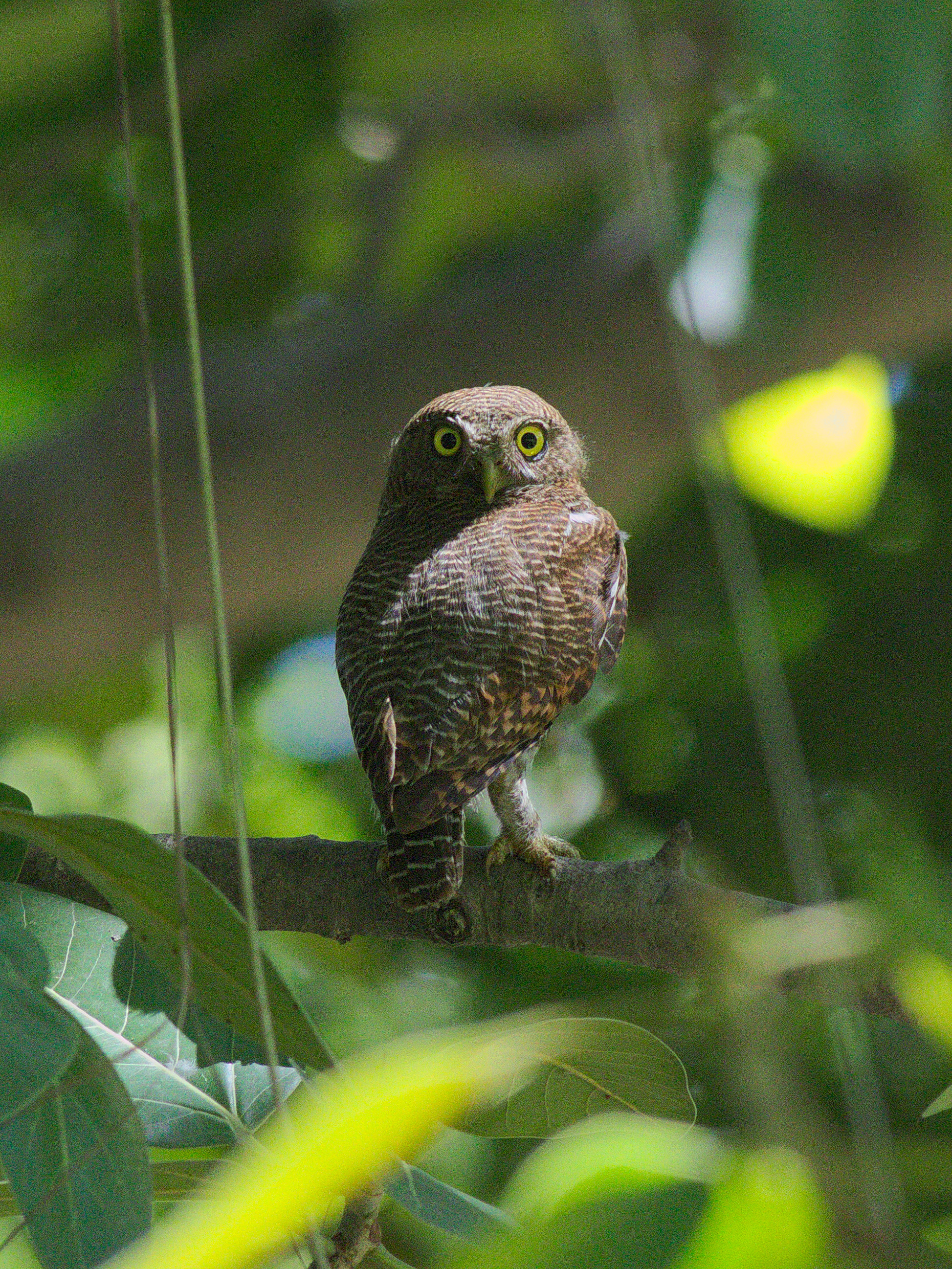 Jungle owlet photographed in SGPGI Forest, Lucknow, Uttar Pradesh, India in July 2016